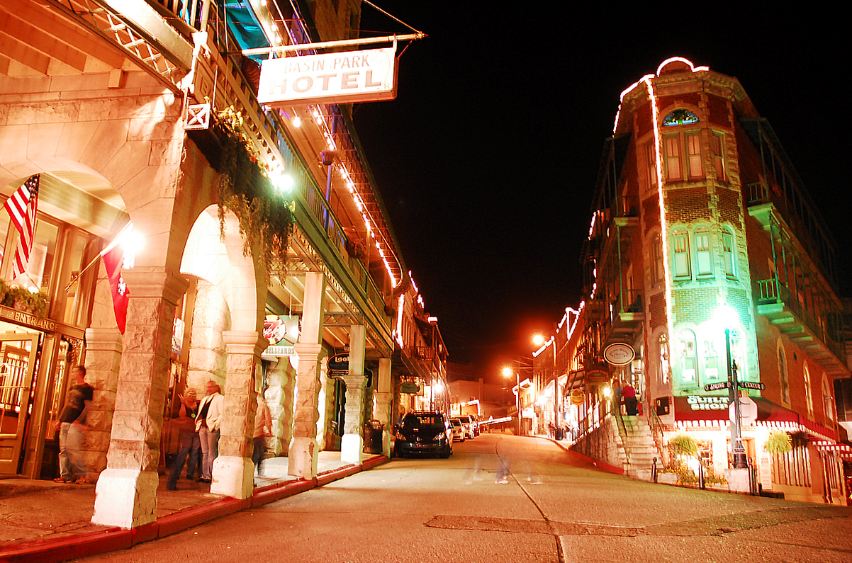 Spring Street with the Flat Iron Building, built in 1985